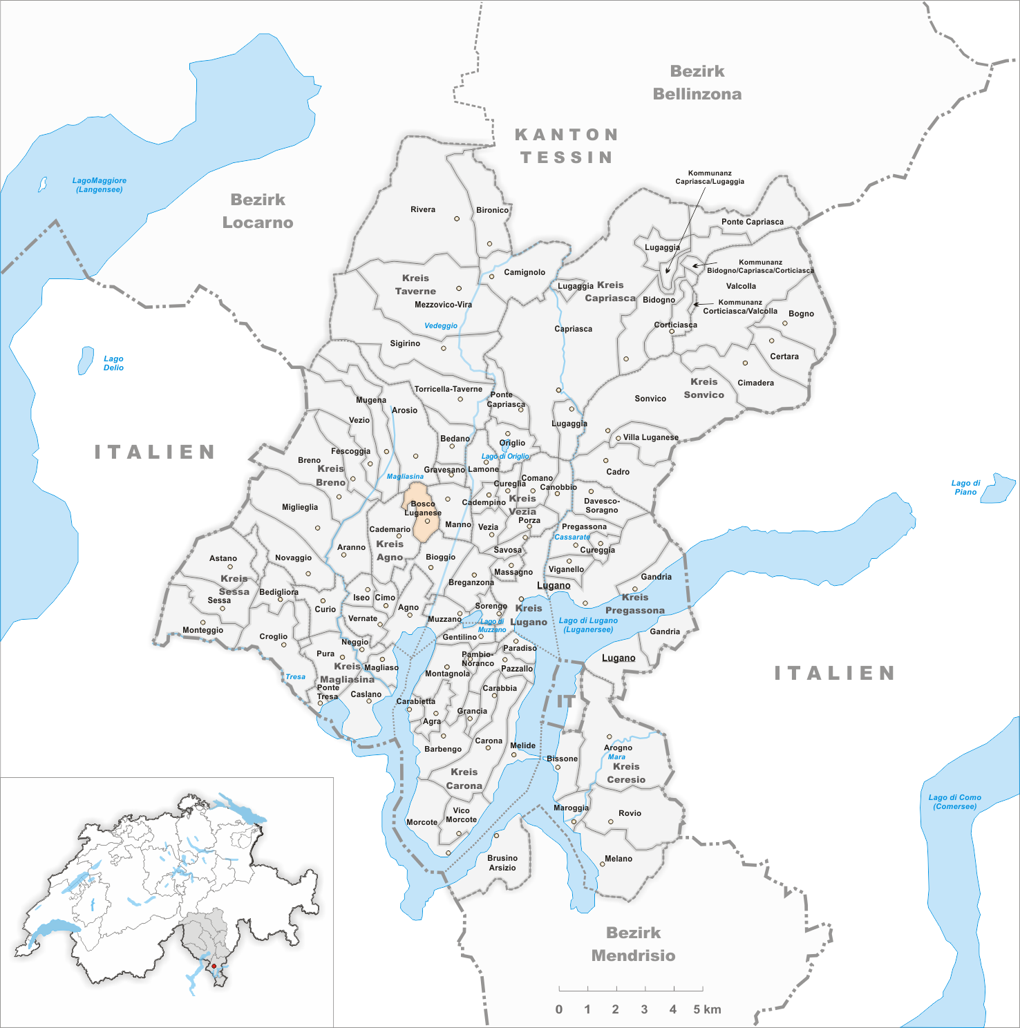 Municipality Bosco Luganese Artist: Tschubby